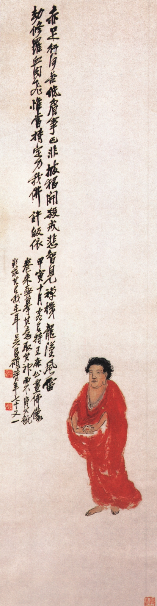 Buddha